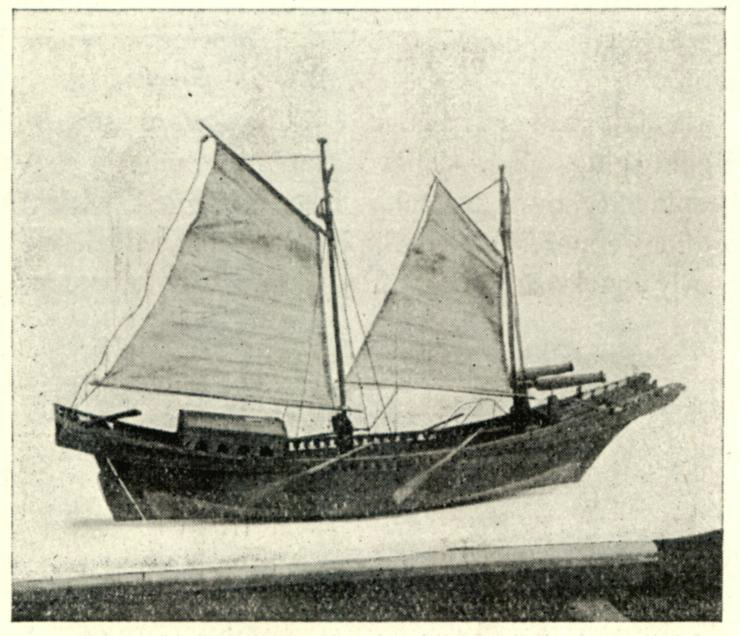 A model of Lanchang To'Aru, from Bandar. Malay two-masted ship, fore and aft rigged. This is very similar to the other lanchang in hull, but the model has short masts, and two badly cut and fitted fore and aft gaff and boom sails. She would need very much a larger spread of head canvas, and boats thus rigged on the east coast generally carry long topmasts and jibbooms for light-weather sails.To'Aru was one of the council of four great chiefs of Selangor, who in former days had much power, and to whom was entrusted the election of the Sultan. To'Aru was the most powerful of these four great chiefs, and took his name from a district called Aru, in Sumatra, from which he came over to settle in Selangor. Aru is probably the same as the word Aru (also eru or 'ru), which means a casuarina-tree. Bandar was the name of the place (on the Langat river) where To'Aru lived.